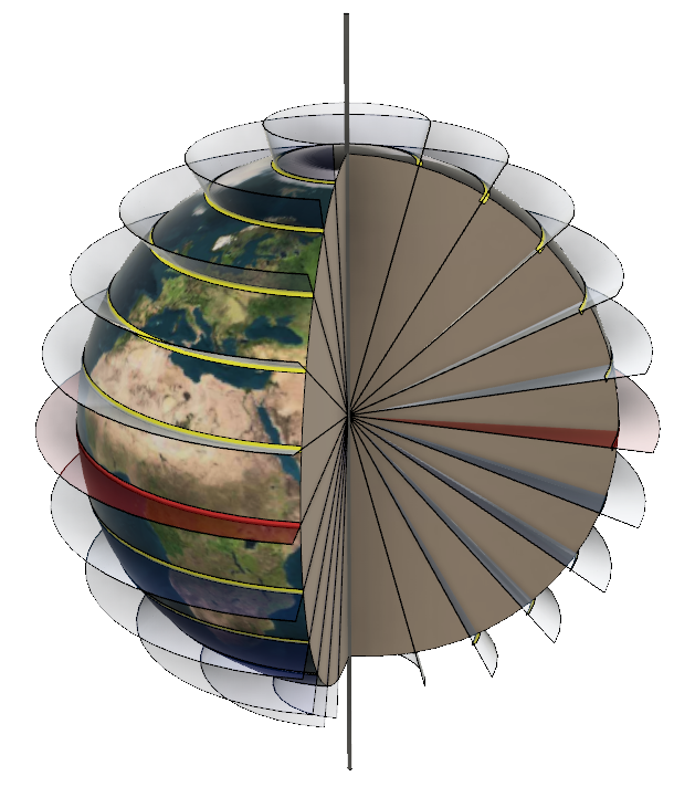 Model of a parallel (circle of latitude) as a line created by intersection of the earth's surface and a circular cone whose apex is in the earth's center and its axis is identical with the earth's axis. Equator is highlighted in red.